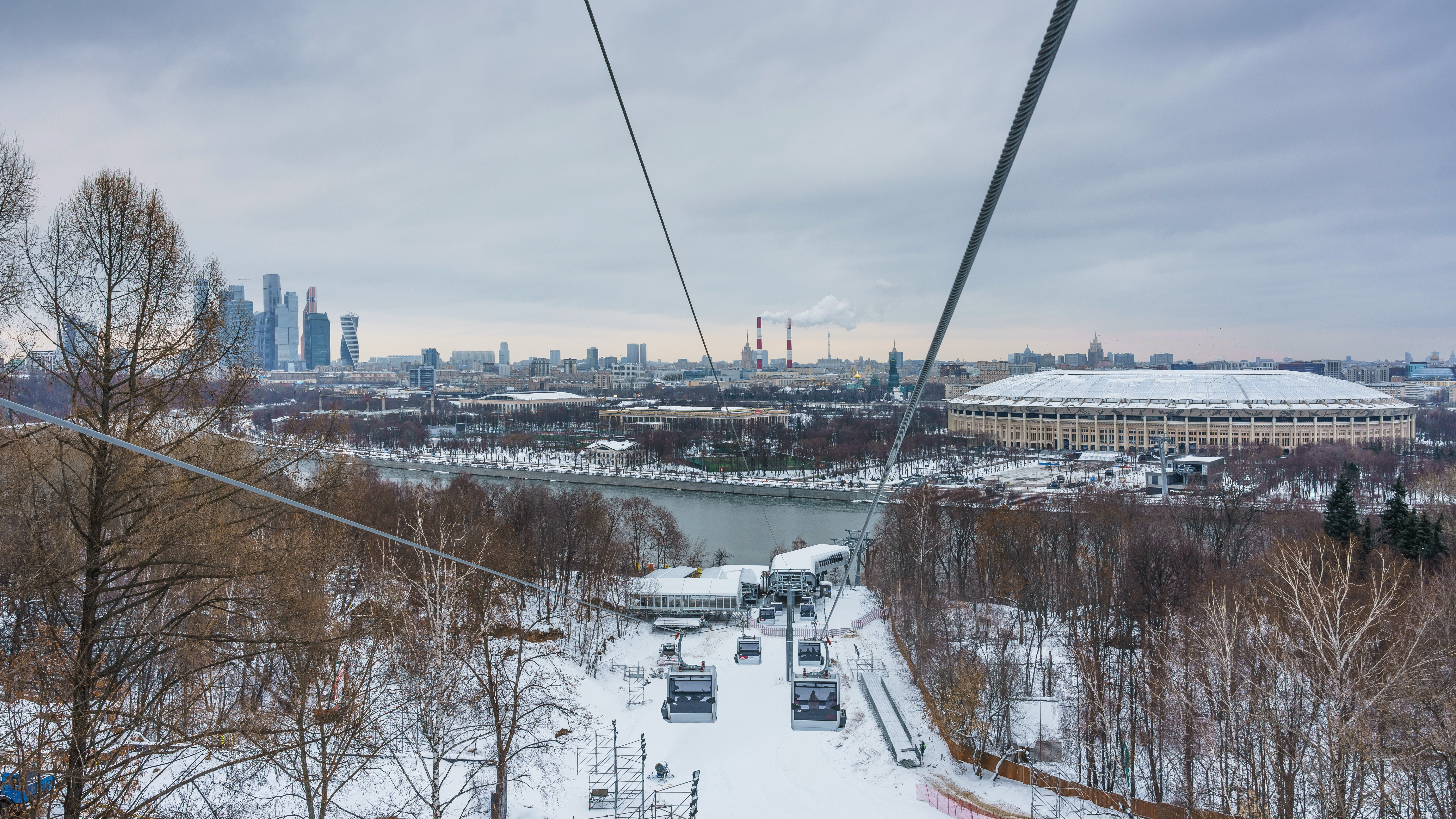 Sparrow Hills Cableway in Moscow, Russia: view from a gondola towards Luzhniki Stadium